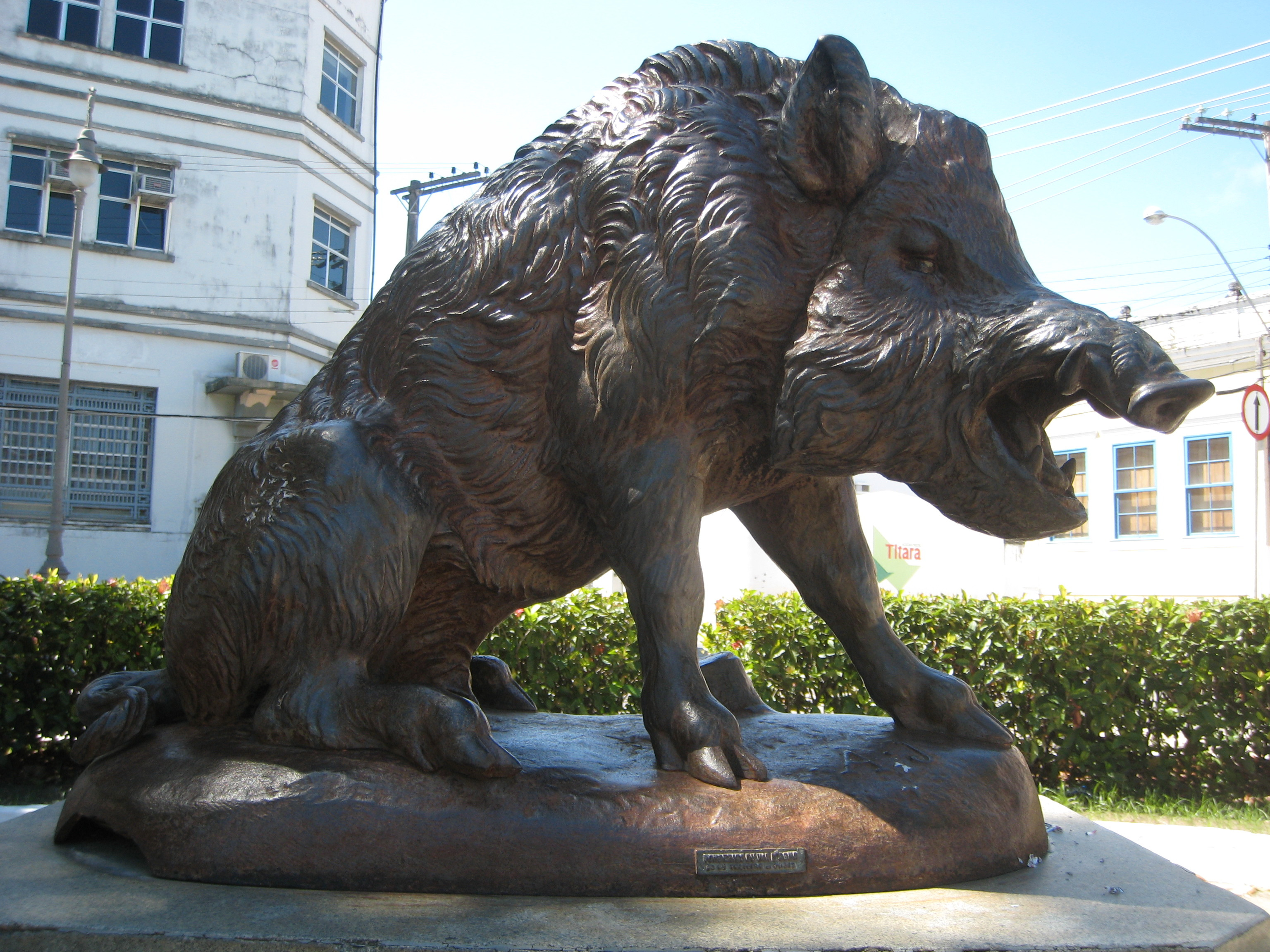 A cast metal statue of a wild boar made by the Fonderies du Val d'Osne, France, in a square in Maceió, Alagoas, Brazil.